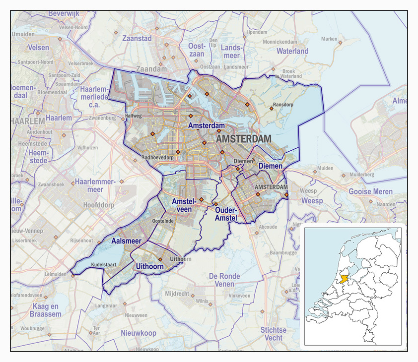 Map of the Dutch Safety Region, with an impression of the terrain and the municipal borders as of 1-1-2017.